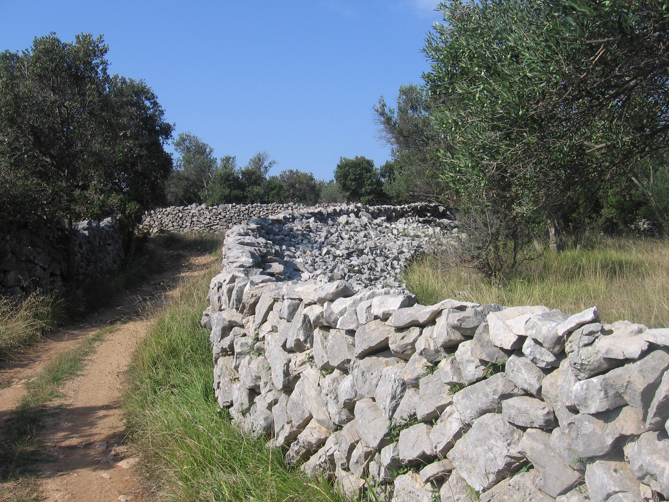 A path in Olib.